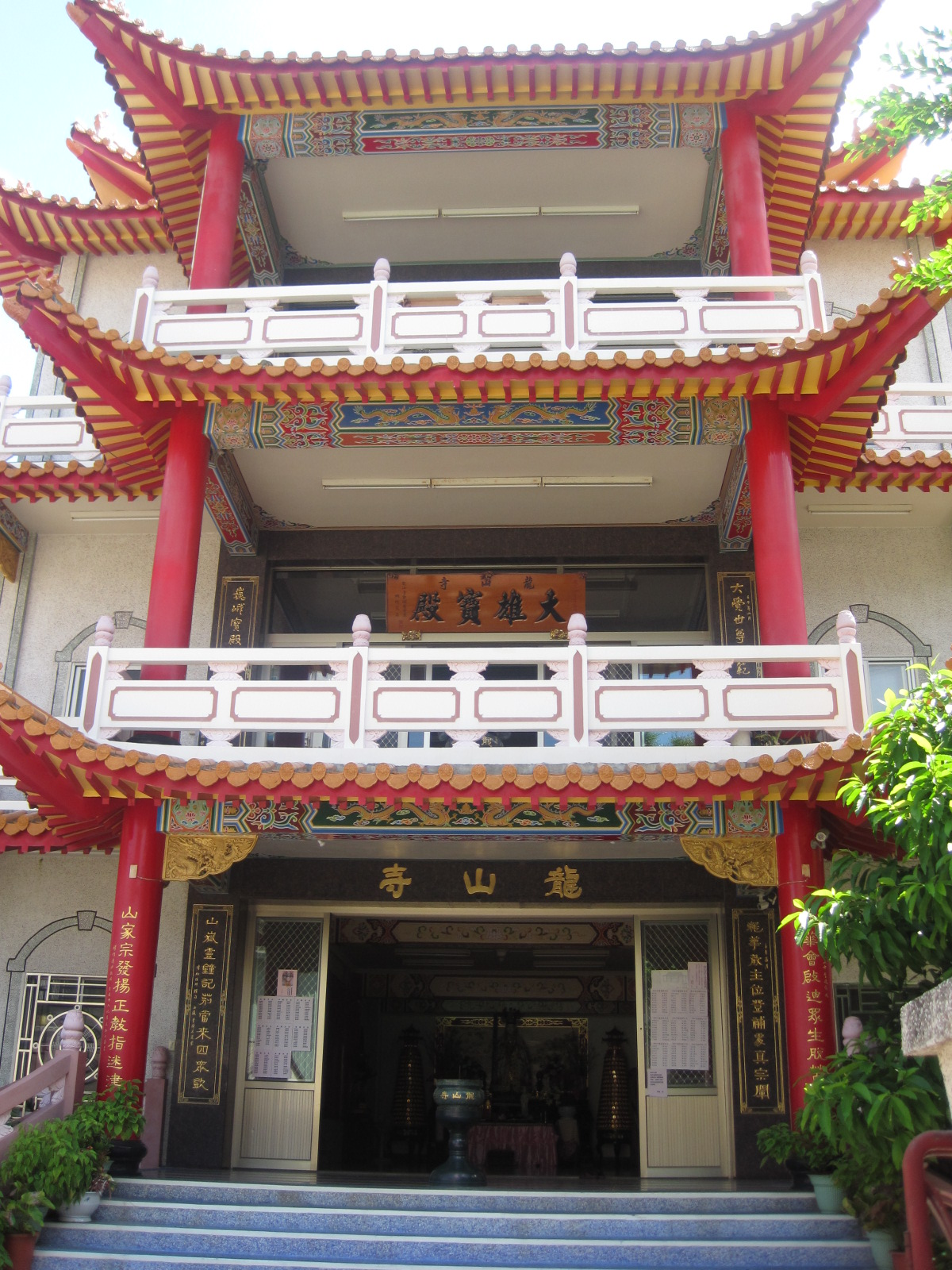 Longshan Temple, Tainan